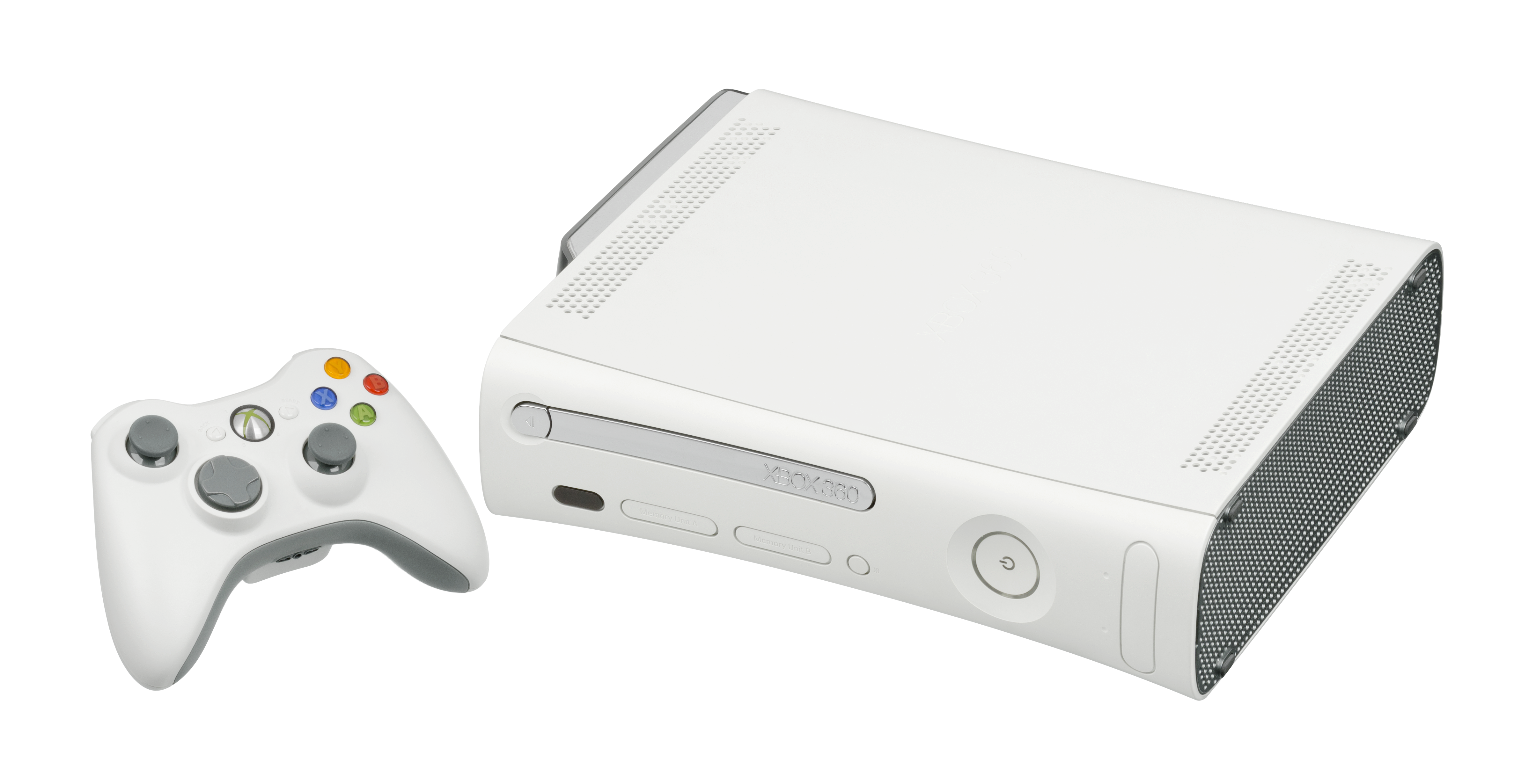 The Xbox 360 Pro/Premium video game console, shown with wireless controller. A seventh generation console made by Microsoft and released in 2005, this is the Pro/Premium model that retailed for $399 at launch and included a 20GB hard drive, a wireless controller and a silver DVD drive bezel.